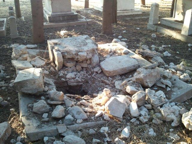 Vandalism in the Jewish Cemetery in Kos July 2013. Credit:Courtesy of Arie Darzi to memorialize the Jewish community in Greece.